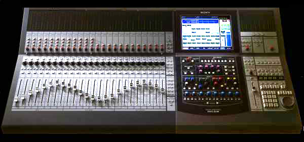 Sony DMXR 100 Digital Mixer taken at NAMM showroom